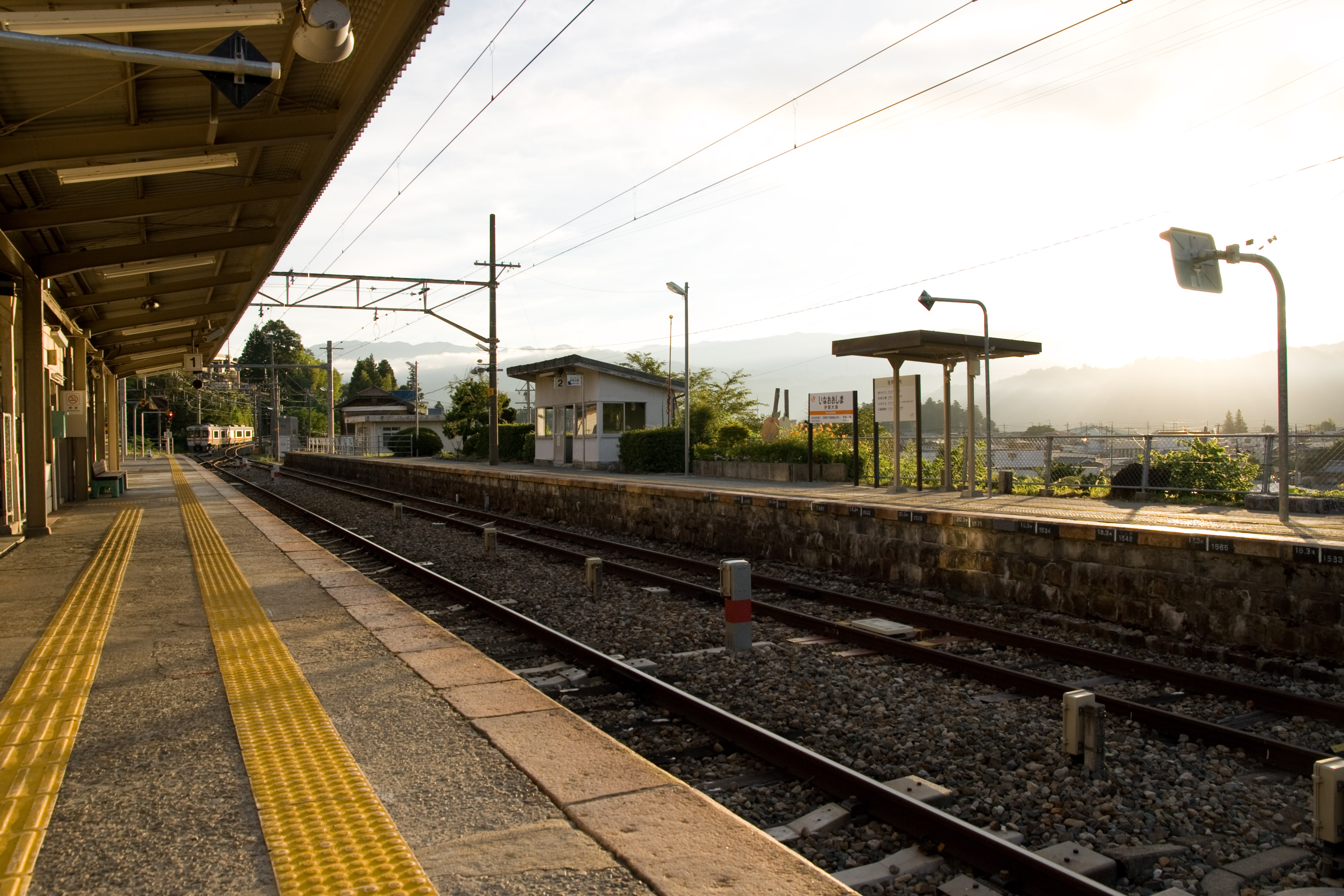 Ina-Oshima Station in Matsukawa town, Nagano Prefecture, Japan.